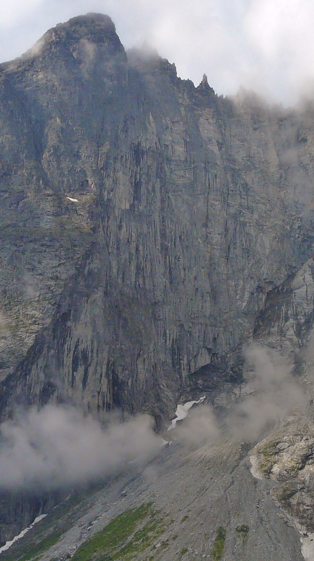 The actual wall of Trollveggen with the 1,100 m deep vertical drop as seen from the northeast by the E136 road in midday in 2008 August